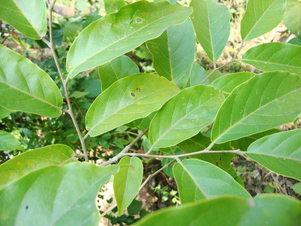 Aaval - Leaf